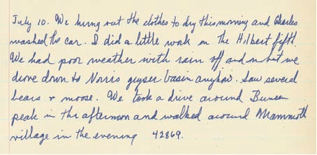 Entry (July 1947) in journal of mathematician Andrew Mattei Gleason relating to his work on Hilbert's fifth problem